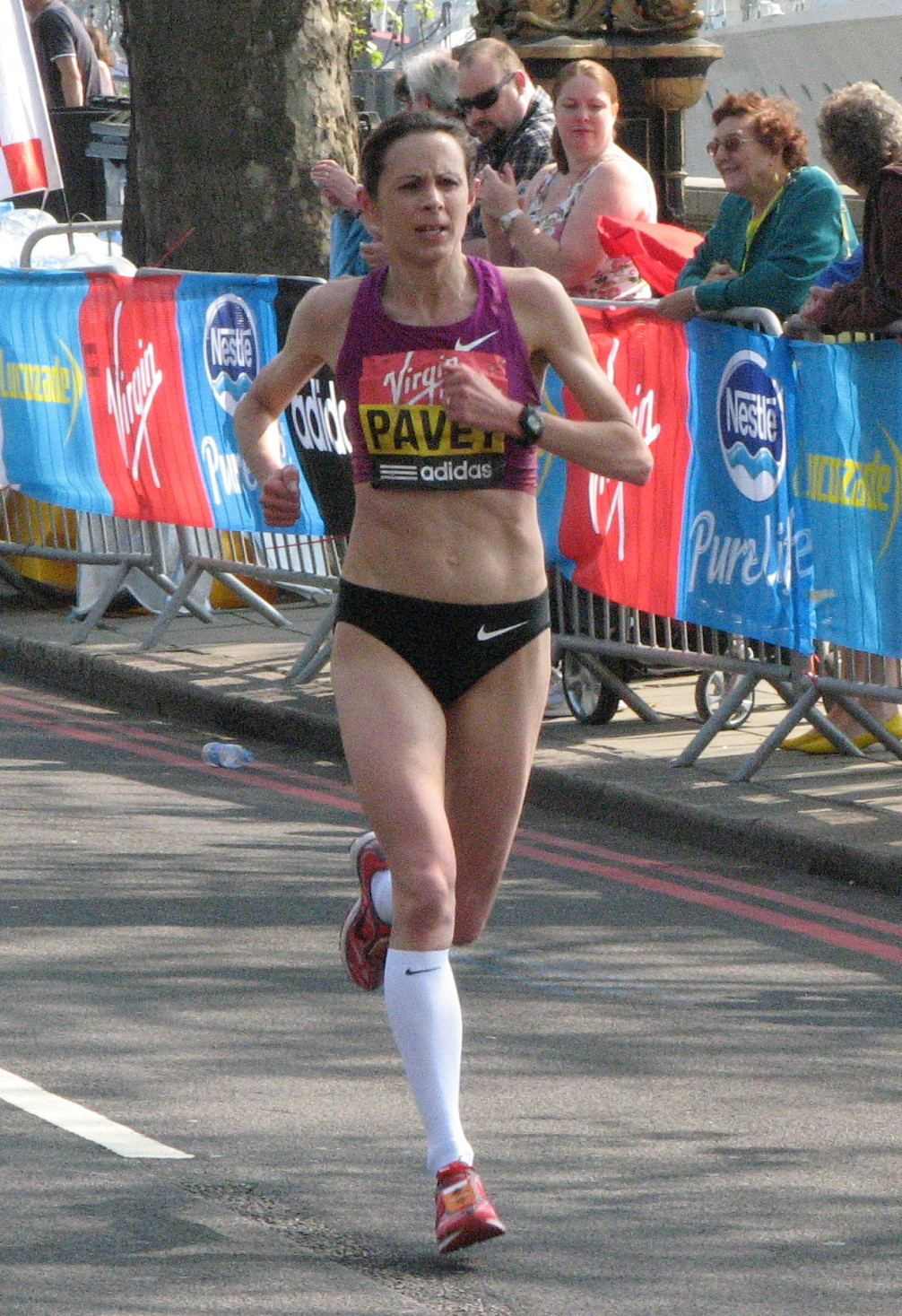 2011 London Marathon - Jo Pavey in her debut marathon. She was first Briton home in 2:28:23, qualifying for the Olympics and coming 19th. Virgin London Marathon, 17 April 2011. Taken from 24 and a half miles, at the (western) junction of Victoria Embankment and Temple Place, very close to the Walkabout.